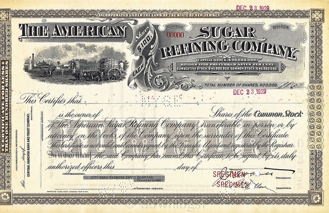 A 1929 NYSE specimen stock certificate from American Sugar Refining Company